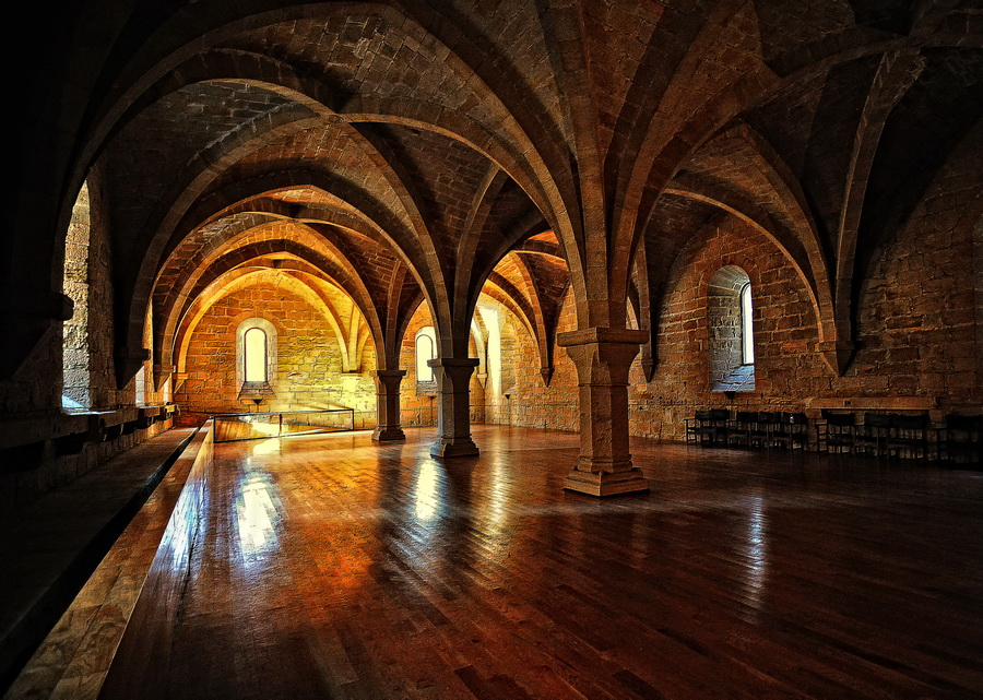 The success of the adventure Poblet Cistercian explains. Cistercian is founded in 1098, and Poblet in 1150, when no one hundred years have passed. The twelfth and thirteenth centuries are crucial in the history of our monastery. In fact, they let us finished the main units of the house: a space beautiful and functional at the same time, the search for God, which has survived almost intact in its entirety. The fourteenth century is still of great accomplishments, and also the decline, slowly but surely. It has been said that the documentation known about the private life of the community does not reflect Poblet, over the centuries, significant deviations from the initial ideal of the founders of Citeaux, and, in turn, founder of Poblet, from Fontfroide. In fact, this, the true story of Poblet, has not yet been written and probably never will be, that of the monks who, day by day, heading psalms, ensured the growth and continuity of the house, the domus Populeti. We could thus explain the succession of days and years to complete the centuries XV, XVI, XVII and XVIII: Poblet, institution, community, monks, seeking to give a new face, different ways to those living in private the heart itself. However, it may not always be done with transparency and the force of the first ideal. The nineteenth century in a society experiencing profound changes, plants, and the gradual abandonment of the monastery looting desert, the seed of a future recovery. A recovery will also make possible the return of the monks in 1940, a return to a purer life forms, more authentic, more deeply Benedictine and therefore also more evangelical. The monks current heirs of the former, we can never thank him enough, because the authenticity is perhaps one of the most important values we can and must offer the men and women of our time.